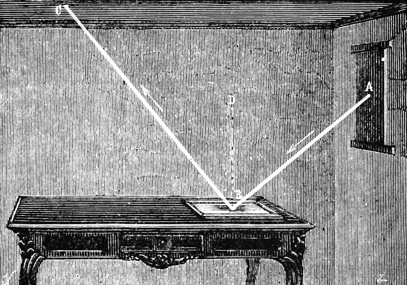 Illustration of the reflection of light